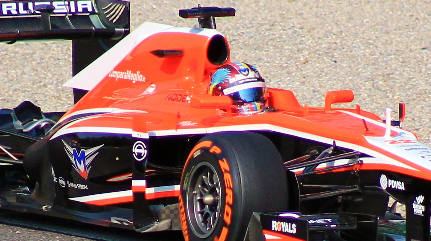 Rodolfo González during friday's first session free practice F1 Monza GP